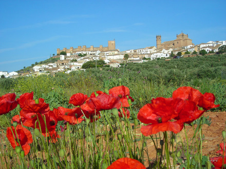 Baños de la Encina crowned with poppies